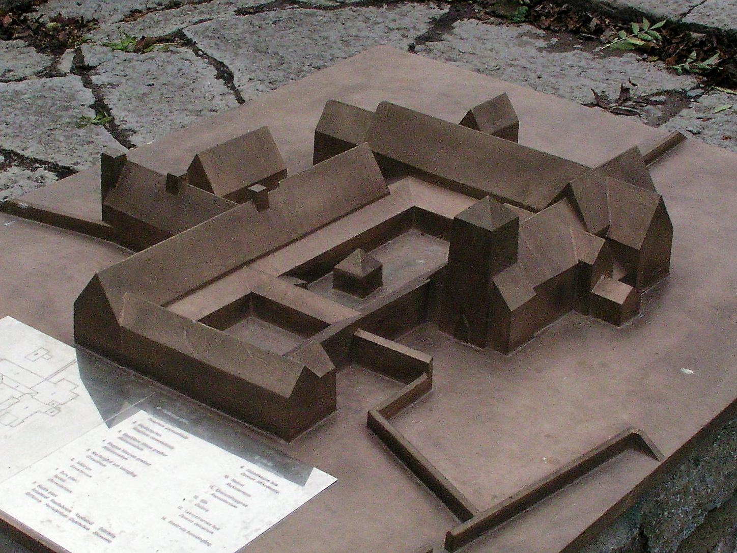 Vreta kloster. Model of the old monastery. The photo was taken by Håkan Svensson (Xauxa) the 28th September 2003.